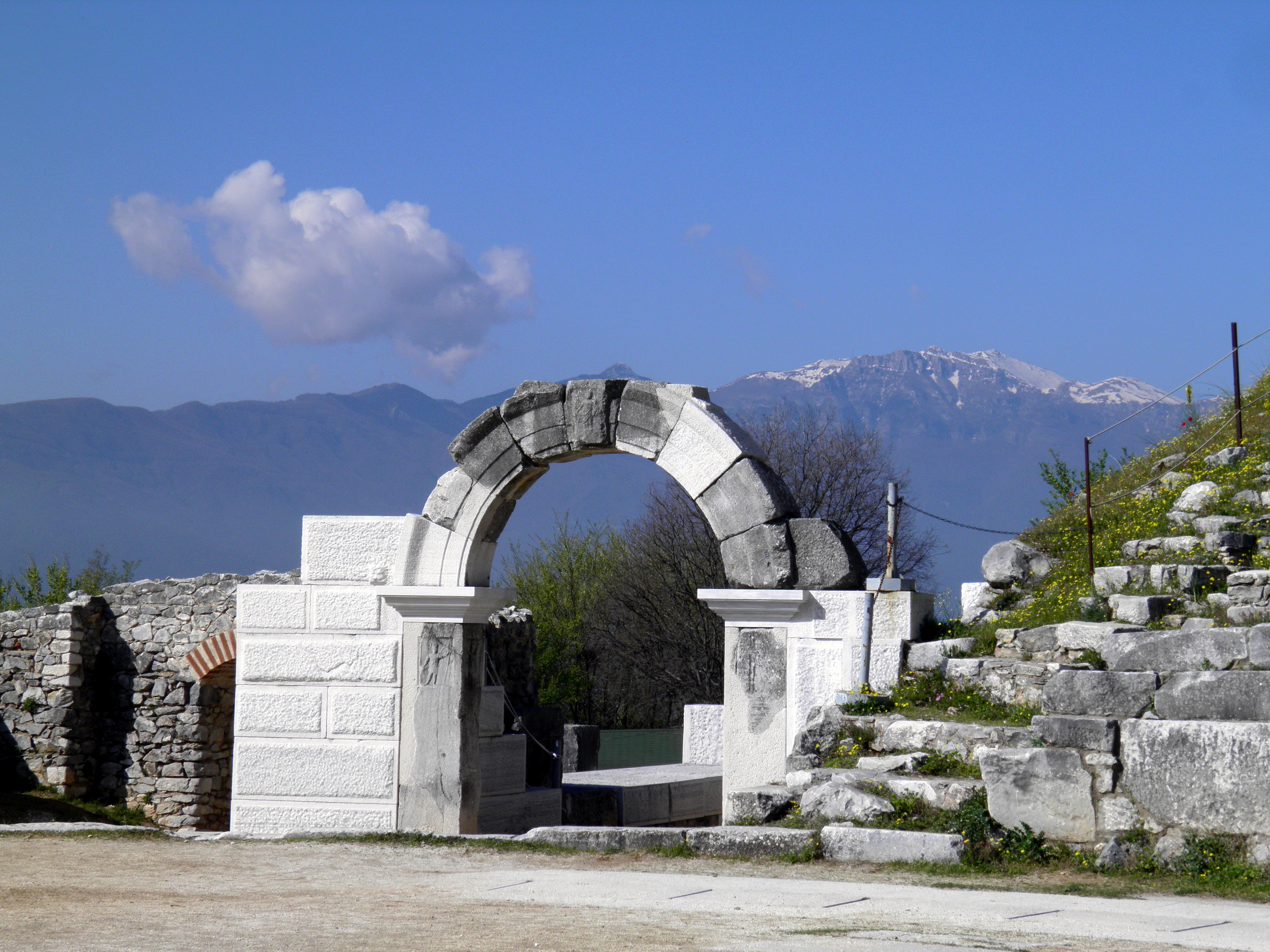 The mountain in the distance is Pangaion where gold and silver was mined from the city of Philippi and processed by the mint in the city. The Bible records that only the church of Philippi consistently supported Paul by sending him money, presumable gold from this mountain. The gold from this mountain also financed King Philip and Alexander the Great in their conquests. The ancient Theatre of Philippi is a remarkable and important monument. It is located at the foot of the acropolis and it is supported on the eastern wall of the city of Philippi. Even though it has undergone many changes over the centuries and some interventions it still preserves many of its original elements. The first phase of the theatre dates back in the reign of Philip II in 356 BC. At that time the orchestra was u-shaped. During Roman colonization changes were made to the theater in order to become suitable for the requirements of the new shows. The orchestra was floored with marble slabs and a high wall was built to protect the spectators during beast fights. Eventually in the 3rd Century A.D. the Theatre becomes an arena for beast fights. During the Christian times the habits and morals of the people changed so the theater was abandoned. Nowadays, many parts of the theatre are saved untouched still many restoration works are done so the annual Philippi Festival can take place.